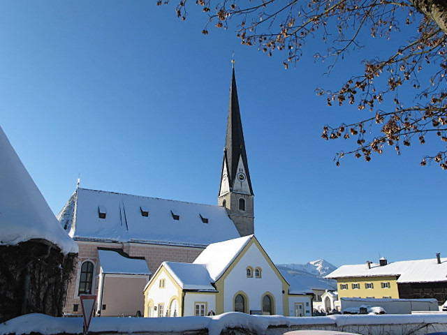 church "Marienkirche")